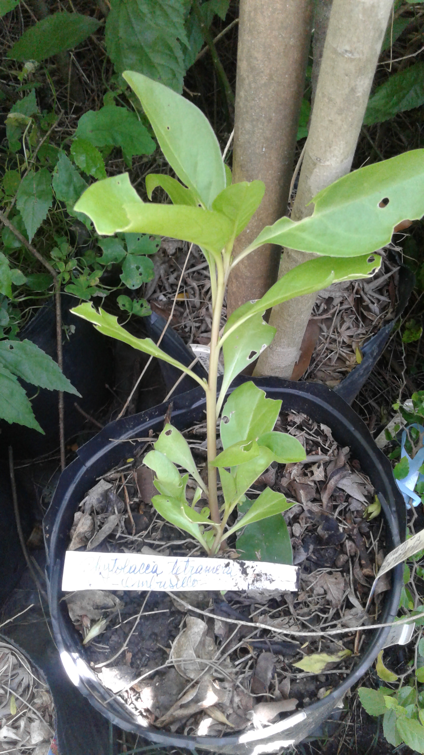 Planta nativa rioplatense cultivada en el Vivero Nativas de Asociación Ribera Norte nursery